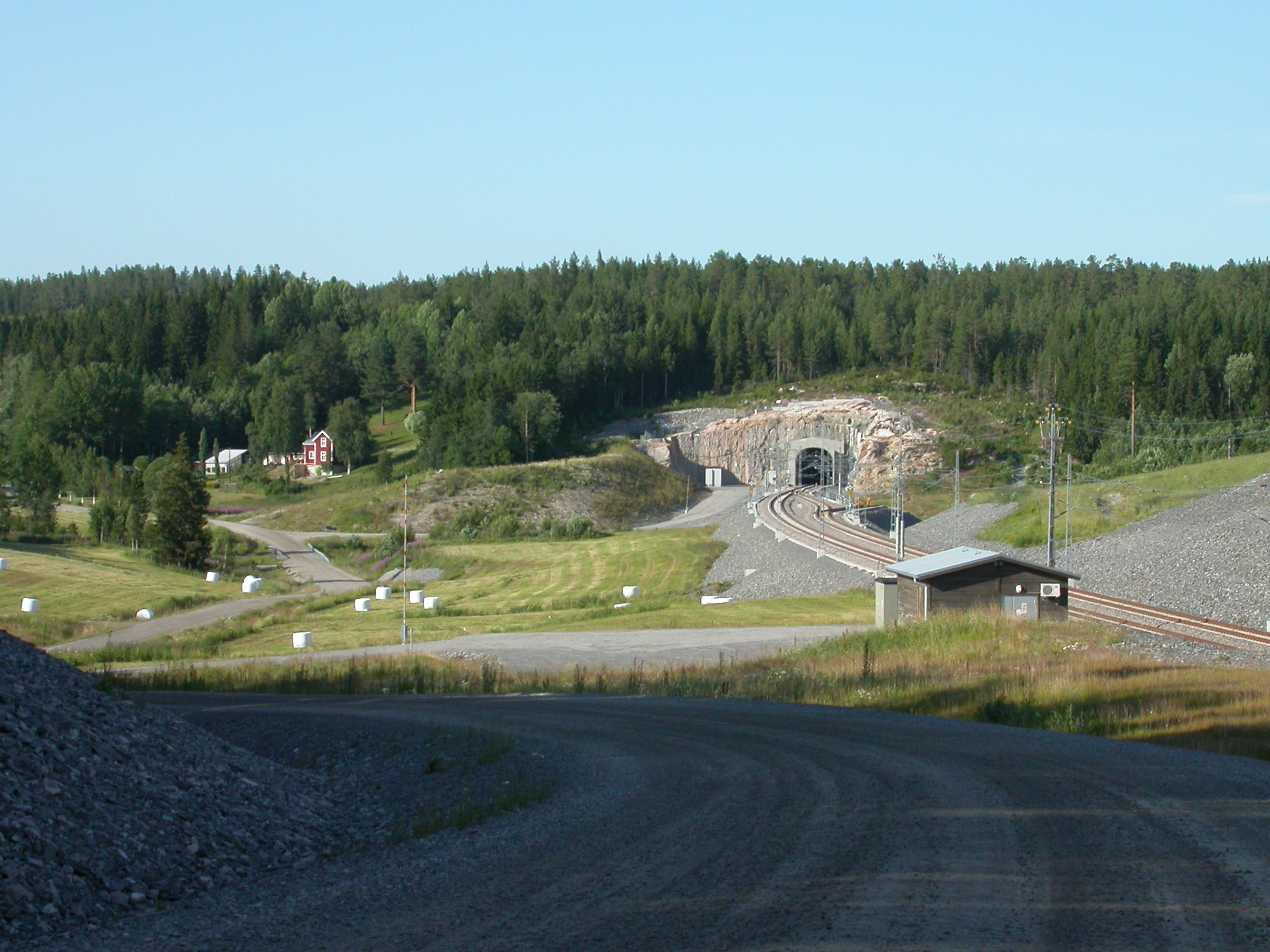 Passing loop at Svedje on Ådalen line with the following tunnel Kroksbergstunneln